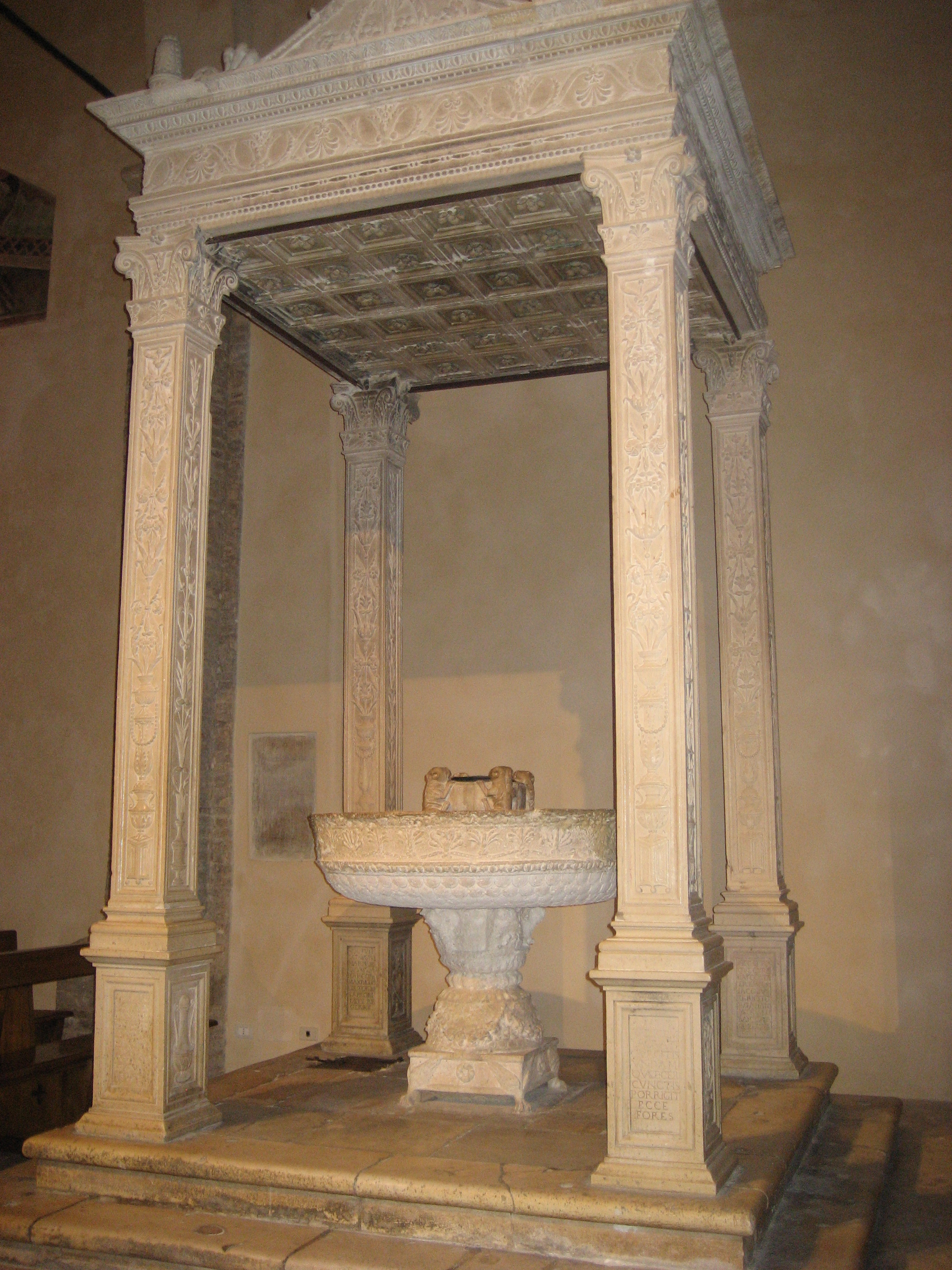 The Baptistery, where he anchors the baptisms today they happen, in the left aisle of the Cathedral. Realized by Paul de Garviis of the Lombardy, it represents one of the masterpieces of the Renaissance in Abruzzo.